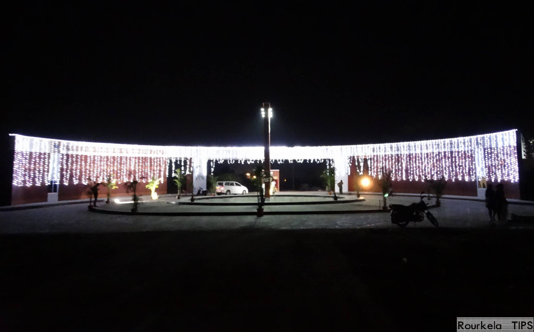 Rourkela